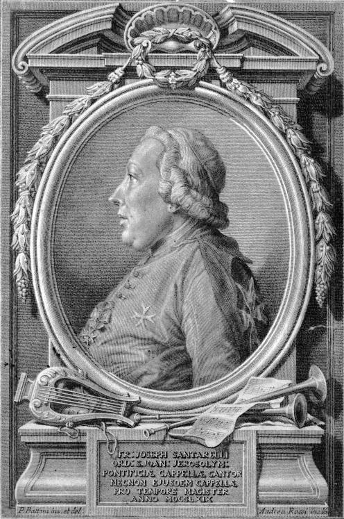 Italian castrato, opera-singer, and choir-conductor Giuseppe Santarelli (1710-1790) by Andrea Rossi (17..-17..) after Pompeo Batoni (1708-1787).